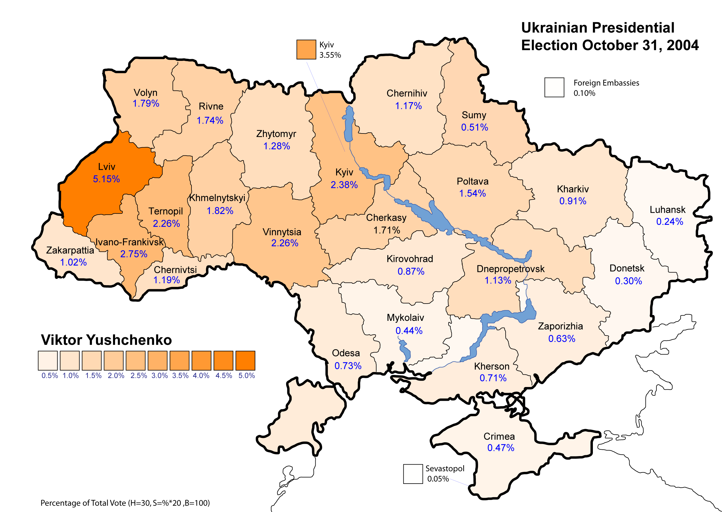 Ukrainian Presidential Election October 2004 - Viktor Yushchenko (First Round)